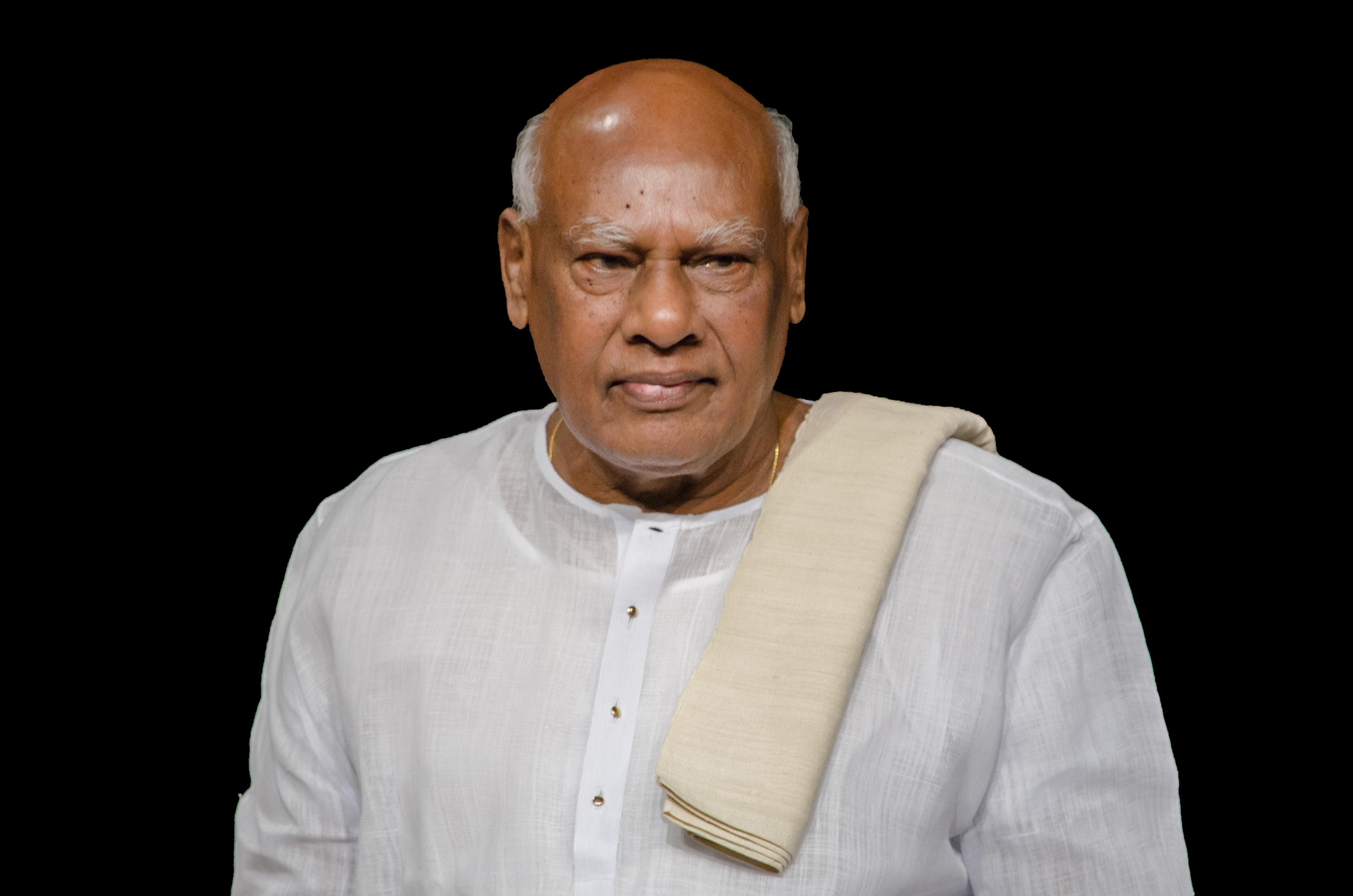 Konijeti Rosaiah Governor